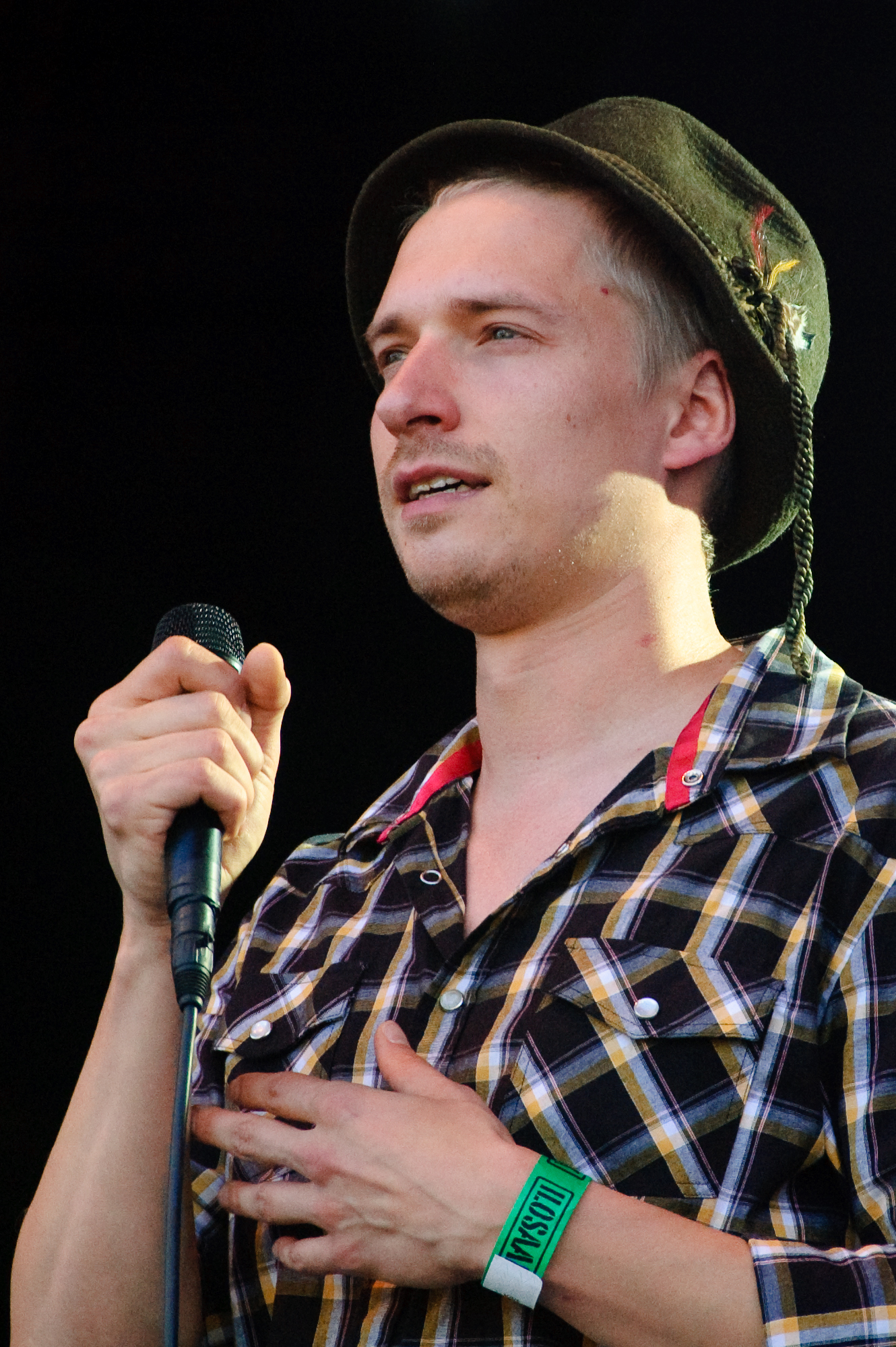 Finnish rapper Asa, the leader of Asa & Jätkäjätkät, performing at the Ilosaarirock festival in Joensuu, Finland.